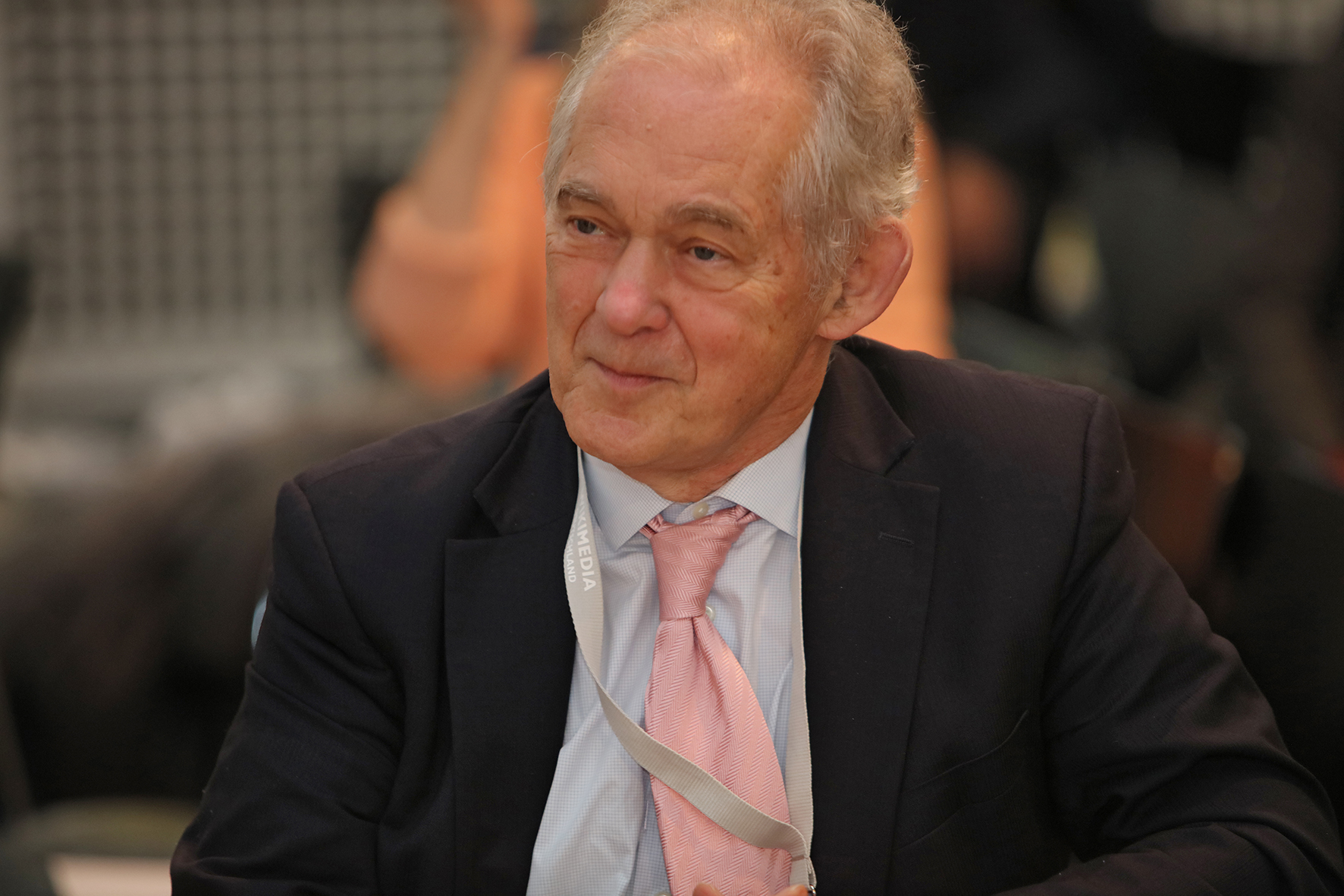 Zugang gestalten 2018